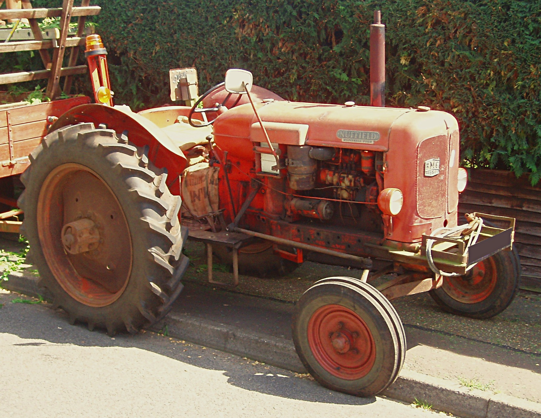 A Nuffield Universal Four. Vintage uncertain. The badge on the front reads "BMC Diesel" and on the side, "Nuffield Universal Four".